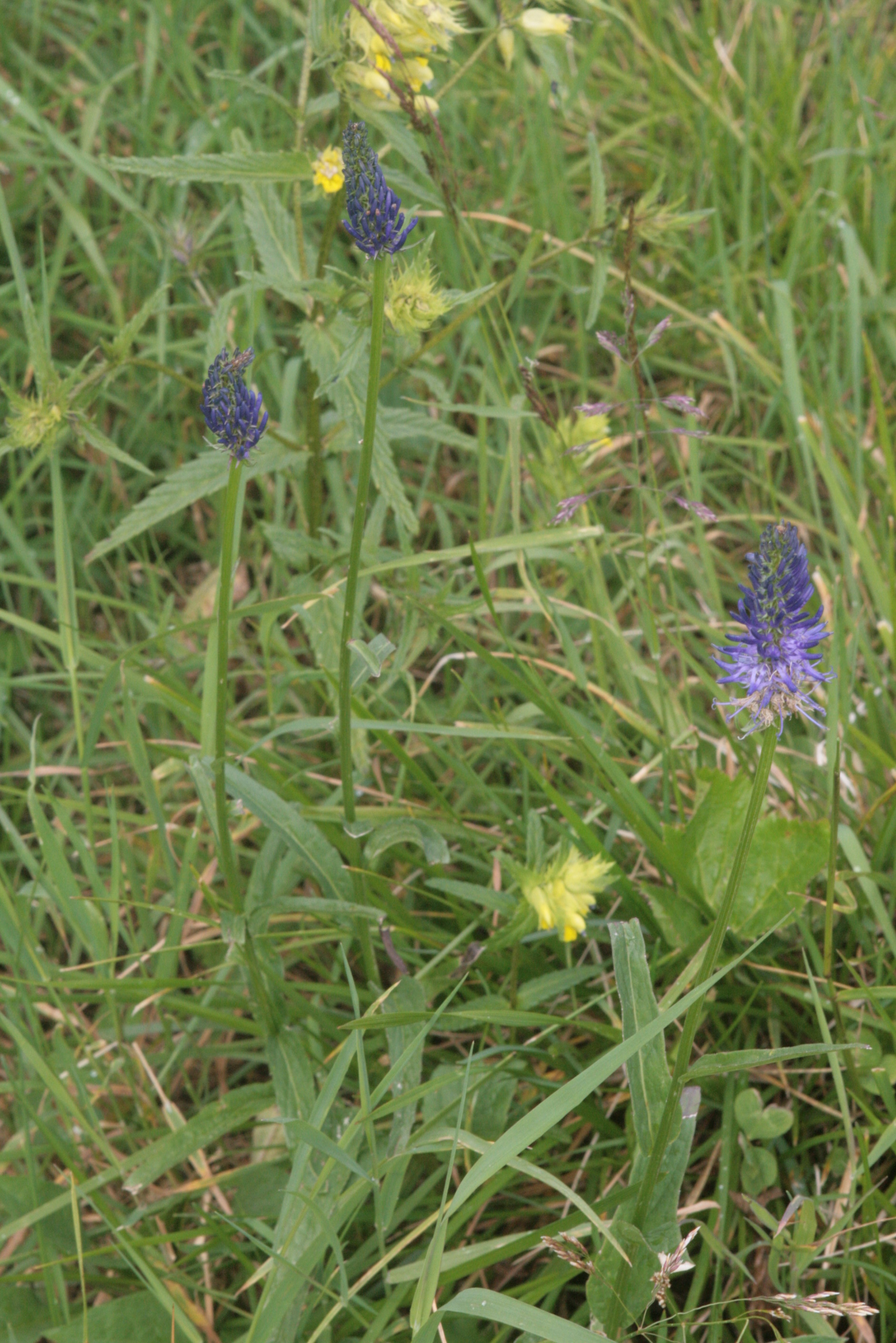 Phyteuma persicifolium